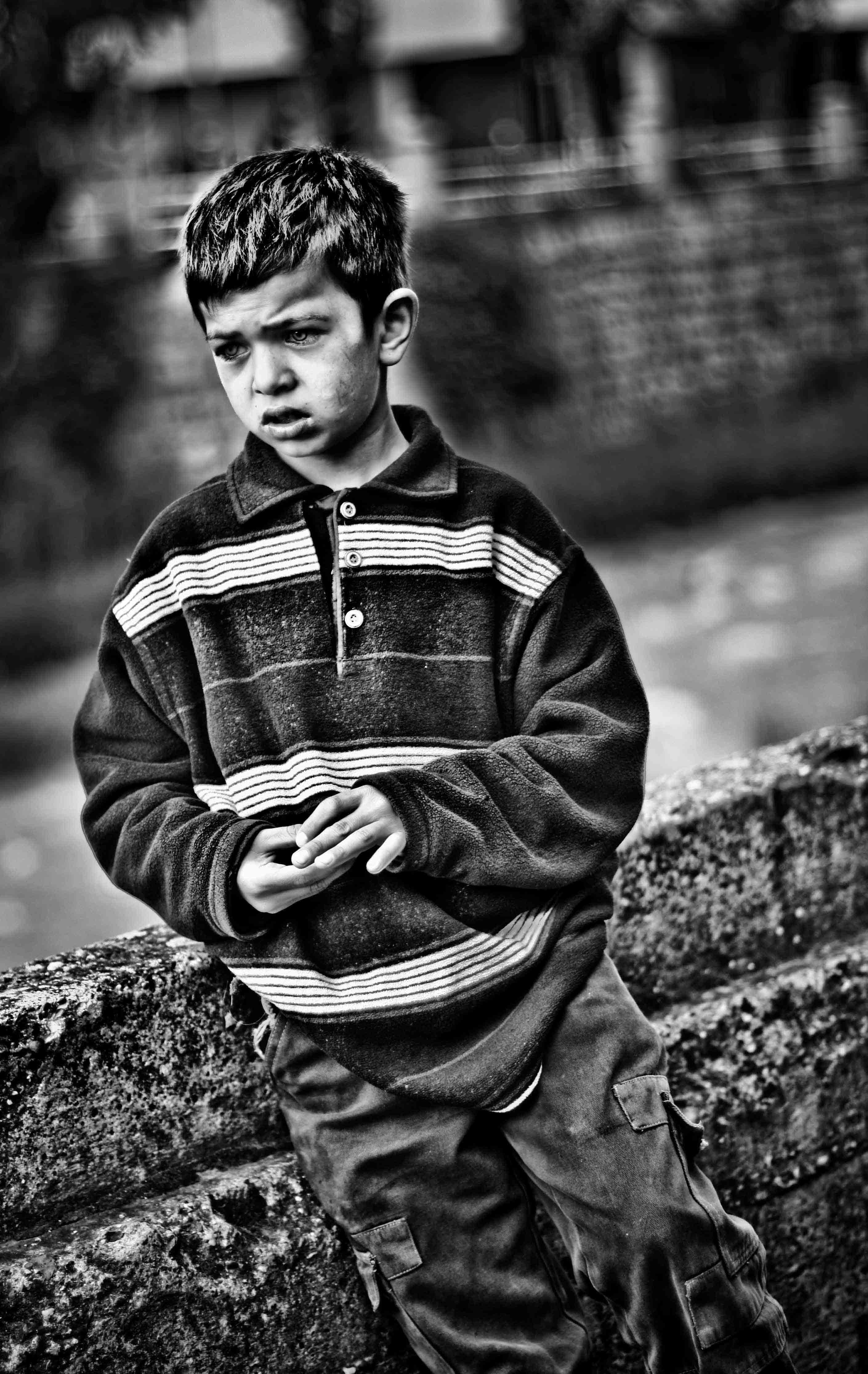 Homeless Children